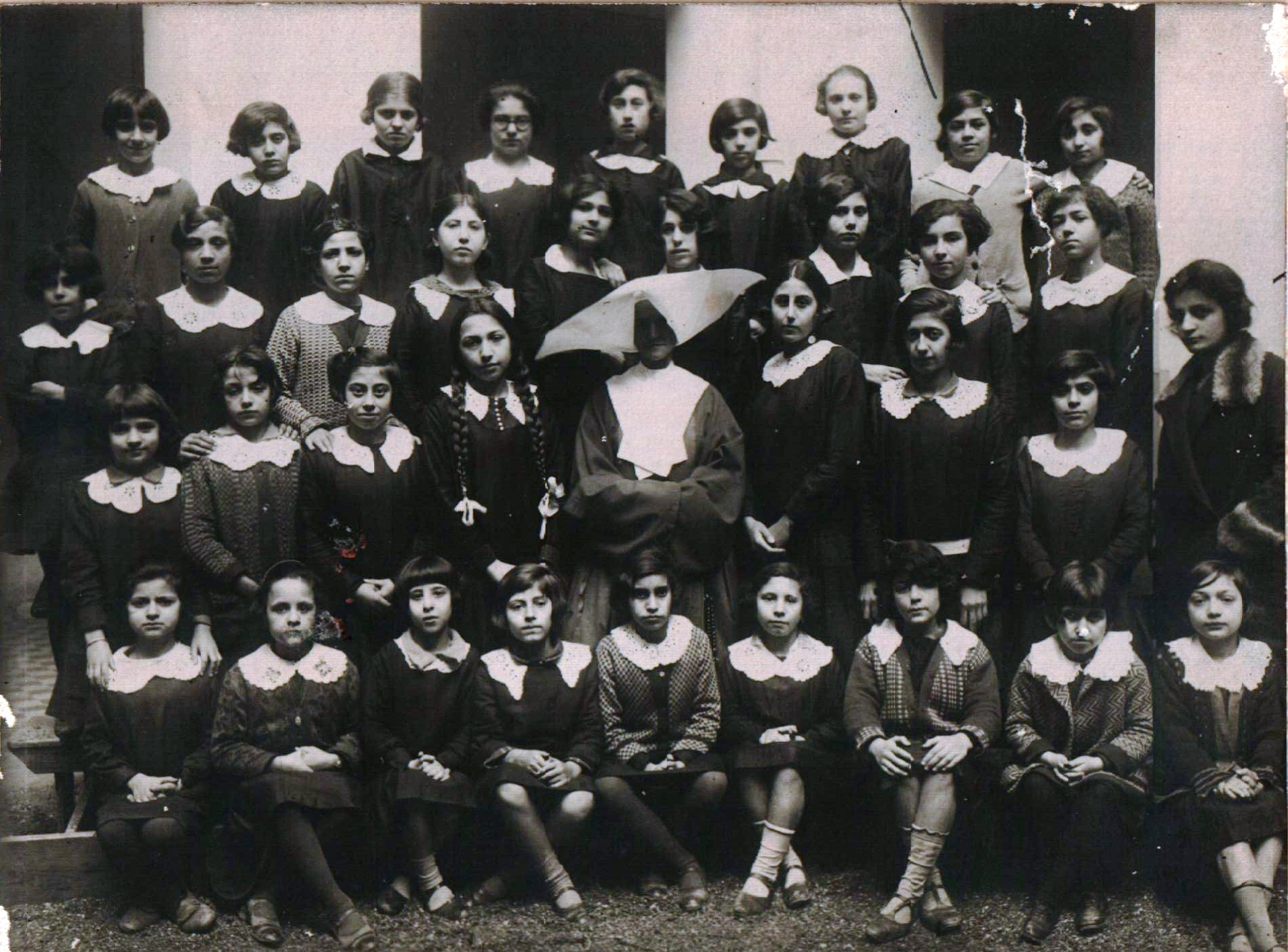 Tereza Stoyanova - second row, first from right and Elena Atanasova Kovacheva (Mangarova) - fourth row, second from left with students in French college in Thessaloniki, 1929